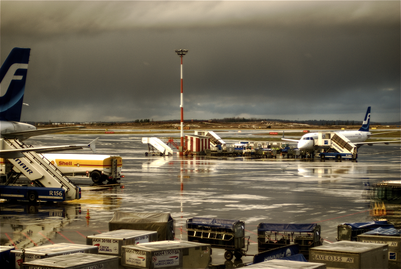 Helsinki-Vantaa Airport